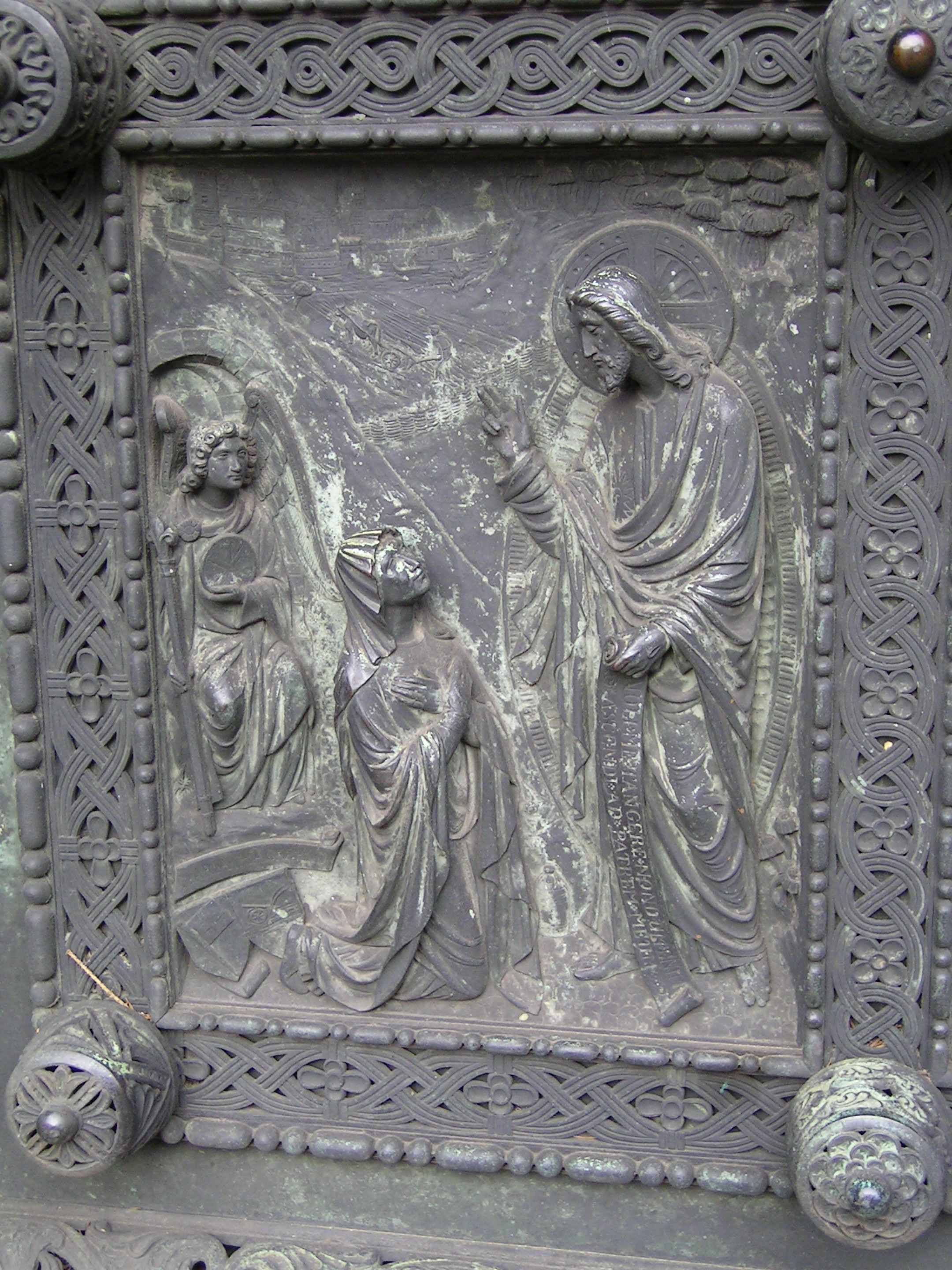 Right bronze door of St. Petri Dom, Bremen: Jesus and … User:Tarawneh/rami